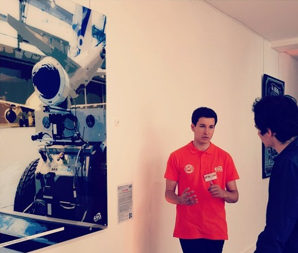 Dr Stanislas Larnier, innovation engineer at Akka Research, presenting a poster on Air-Cobot at Akka Jobs Day 2016, Paris, France